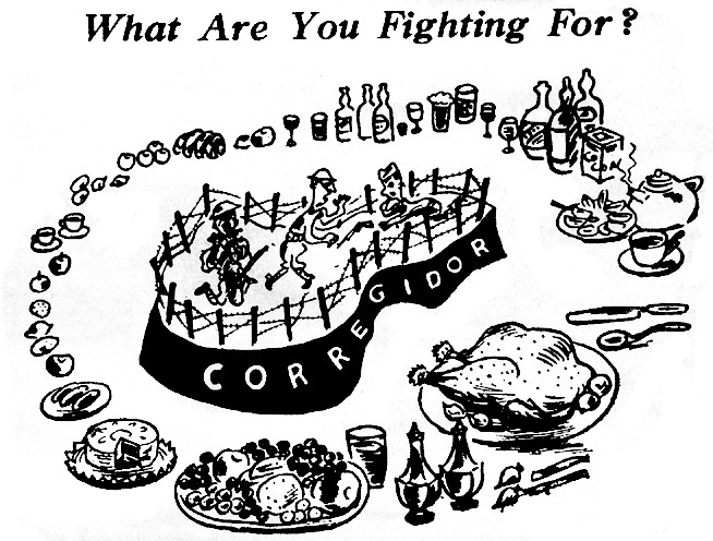 Japanese propaganda leaflet distributed during the Battle of the Philippines .